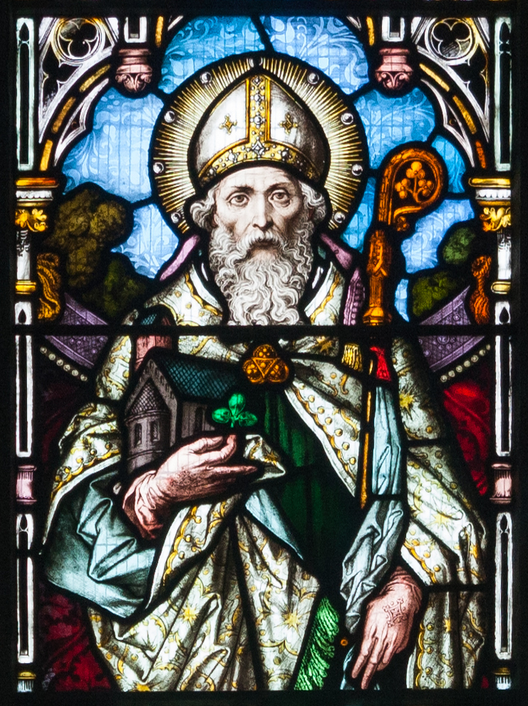 Detail of the centre light of the third west-most stained glass window in the north wall of the north aisle, depicting Saint Patrick. Created by Franz Mayer & Co., Munich.